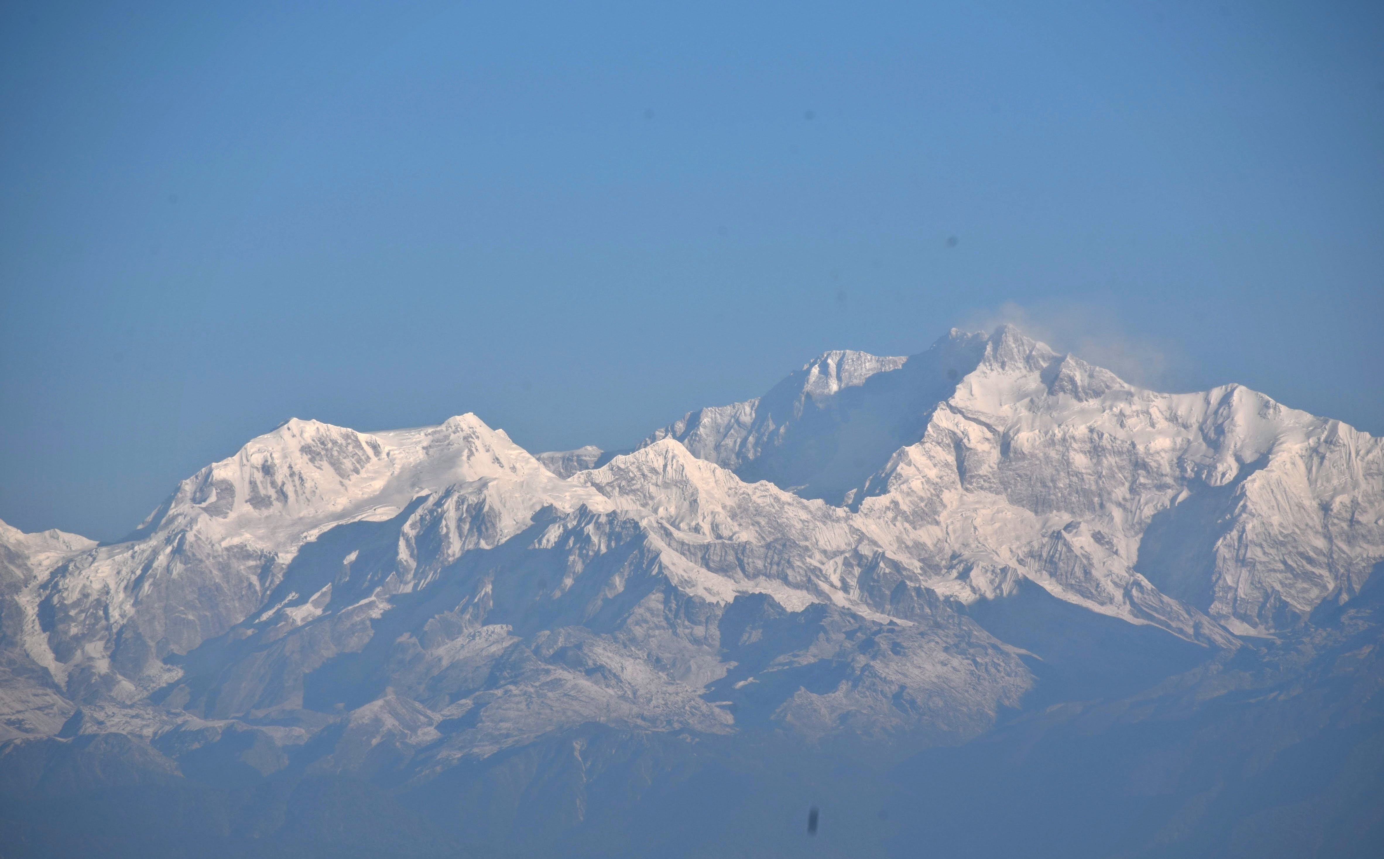 Kangchenjunga early in the morning viewed from Tiger Hill, Darjeeling, India অসমীয়া: পুৱতি নিশা দাৰ্জিলিঙৰ টাইগাৰ হিলৰ পৰা দেখা পোৱা কাঞ্চনজংঘা